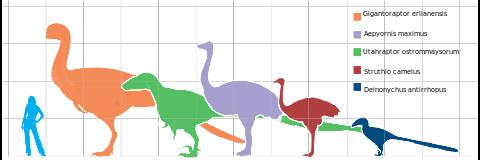 Size comparison of several giant birds (Aves sensu Charig, 1985) from various periods of geologic time, with modern human for scale. Each grid segment = 1 square meter. 1.- Gigantoraptor erlianensis (Gigantoraptor, Oviraptoridae, Caenagnathoidea, Theropoda, Saurischia) 2.- Aepyornis maximus (Aepyornis, Aepyornithidae, Aepyornithiformes) 3.- Utahraptor ostrommaysorum (Utahraptor, Dromaeosauridae, Theropoda, Saurischia) 4.- Struthio camelus (Struthio, Struthionidae, Struthioniformes) 5.- Deinonychus antirrhopus (Deinonychus, Velociraptorinae, Dromaeosauridae, Deinonychosauria, Theropoda, Saurischia)